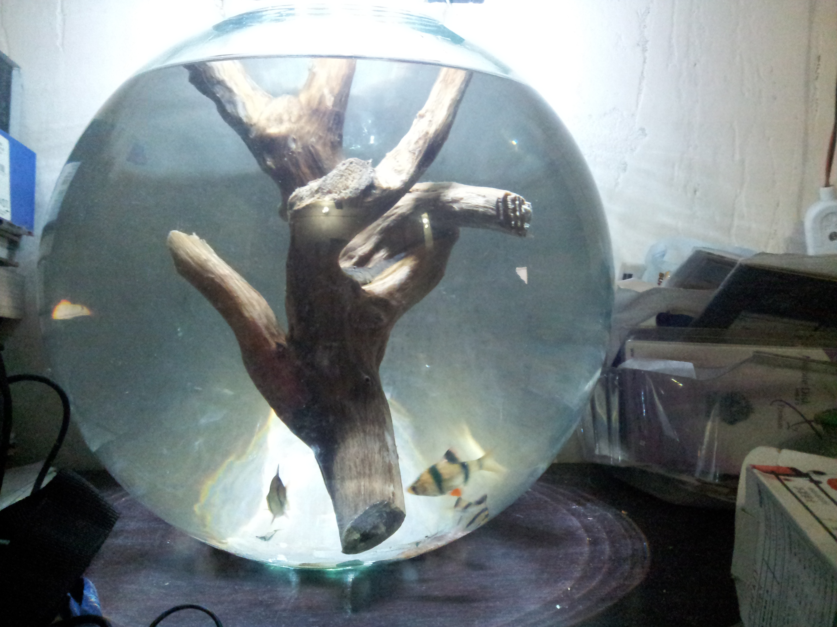 Driftwood in fishbowl aquarium with Tiger Barb fishes